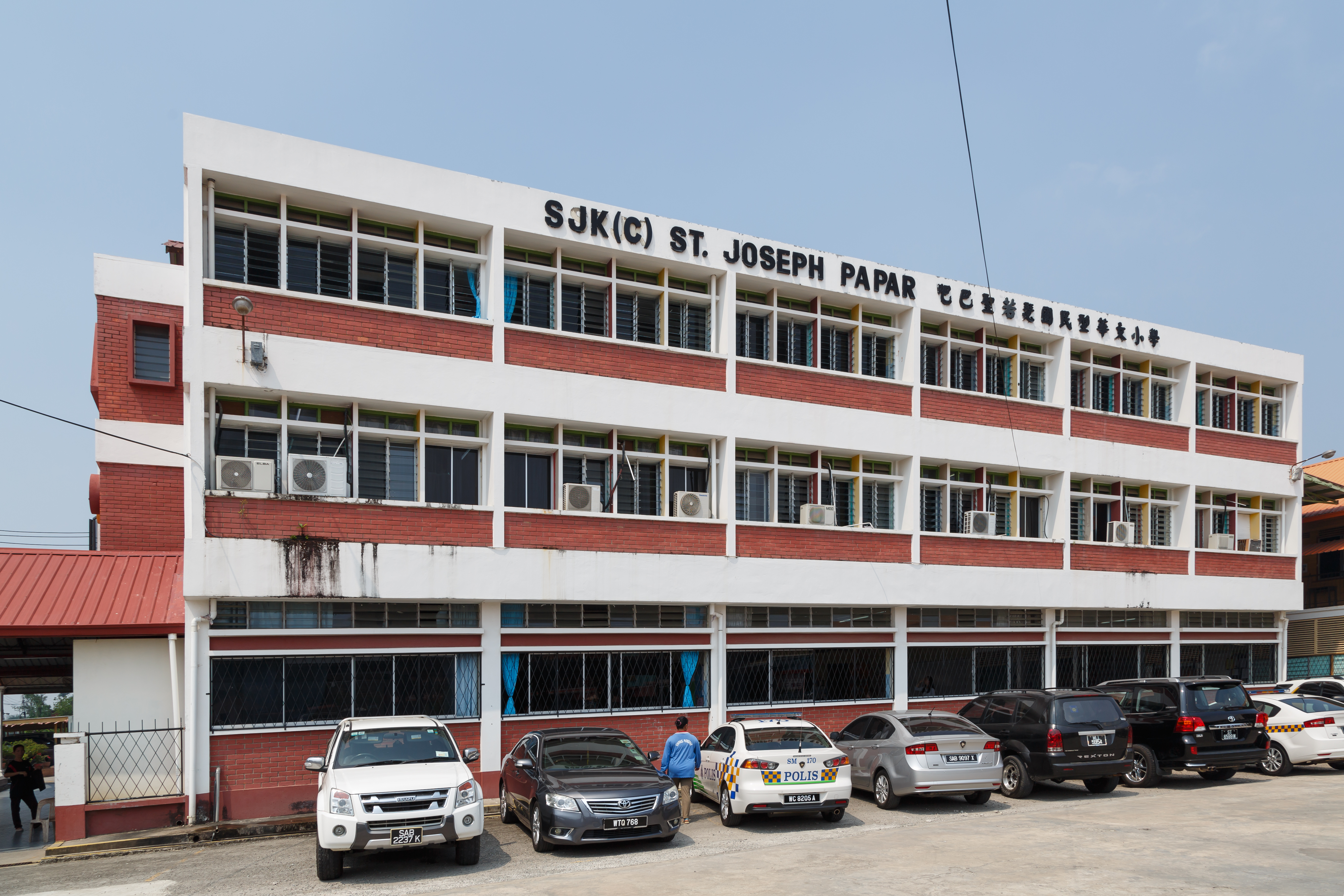 Papar, Sabah: SJK(C) St Joseph (M), a chinese language national-type school in Sabah